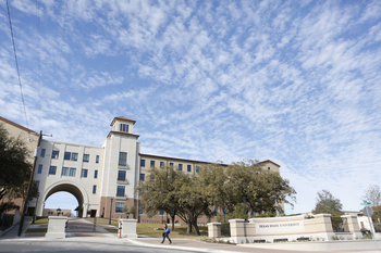 The Undergraduate Academic Center at Texas State University San Marcos.